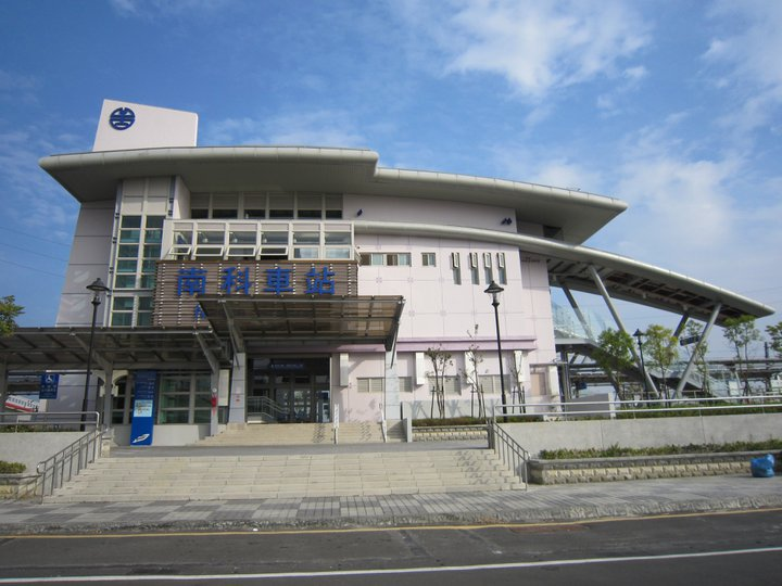 TRA Nanke Station中文（台灣）: 臺灣鐵路管理局南科車站